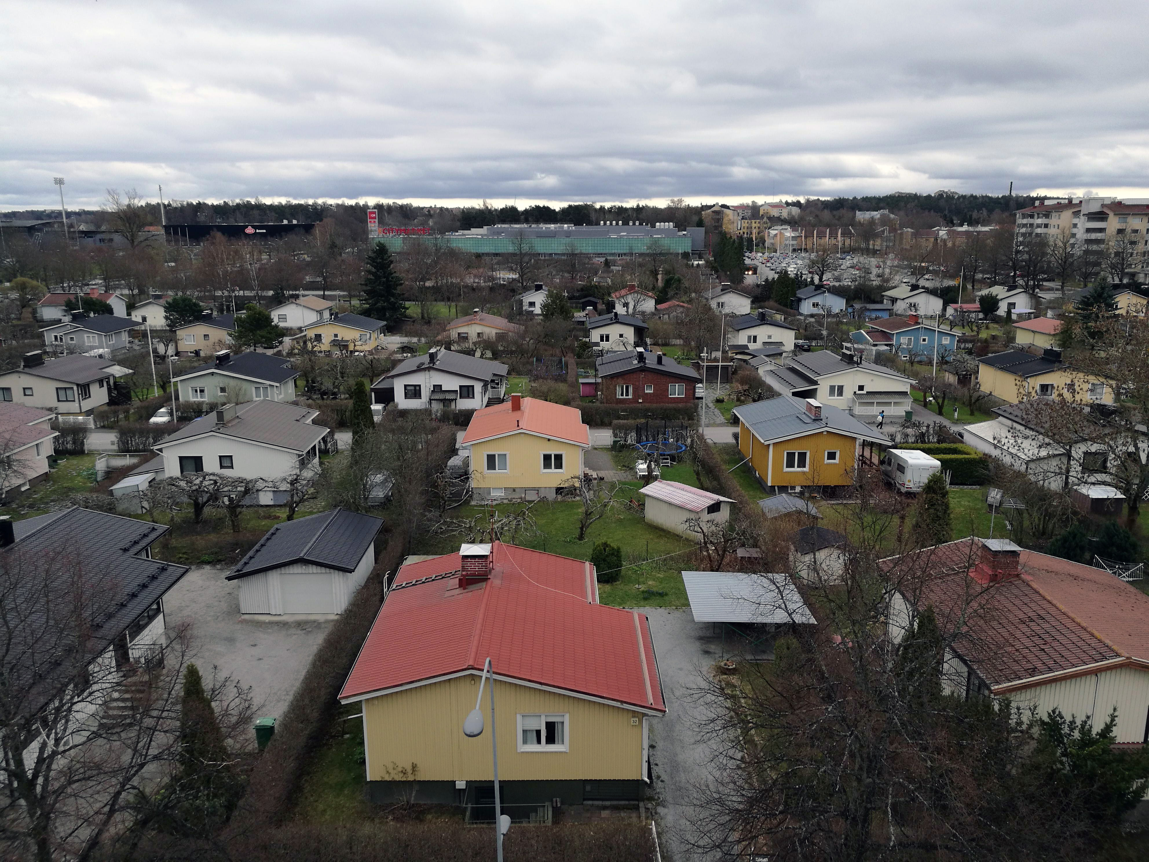 These houses in Kupittaa Turku are a gift from Sweden to Finland after Winter War 1940.